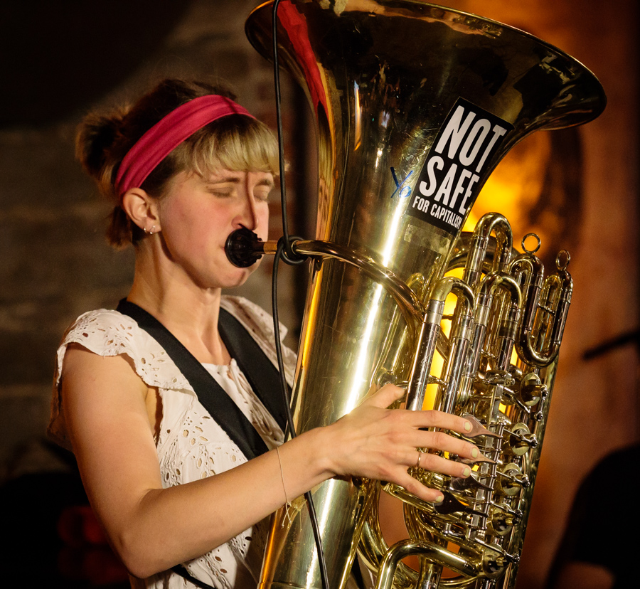 Heida Karine Johannisdottir Mobeck with Skrap and Steve Noble at the stage of Smeltehytta. The concert was part of Kongsberg Jazzfestival and took place on 08. July 2017. Lineup: Heida Karine Johannisdottir Mobeck (tuba) Anja Lauvdal (keyboard) Steve Noble (drums)